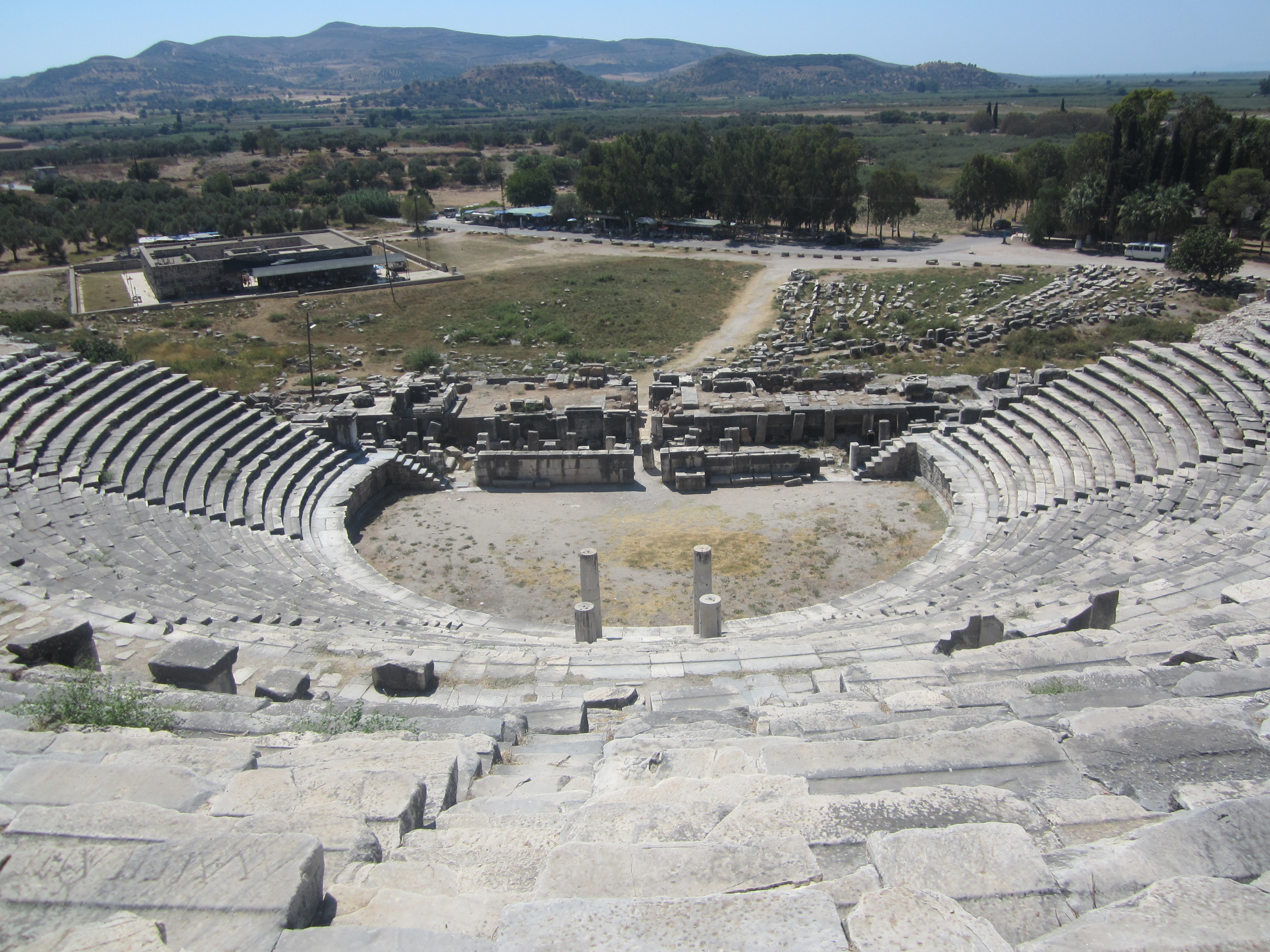 Ancient Greek theatre, Miletus, modern Turkey.